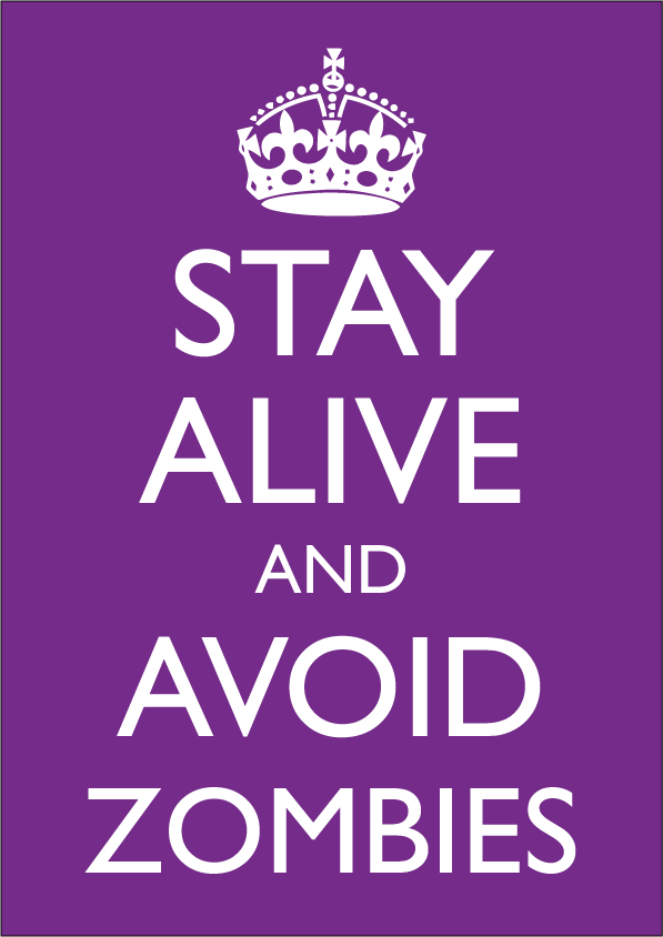 A parody (different version) of the public domain Keep Calm and Carry On poster.